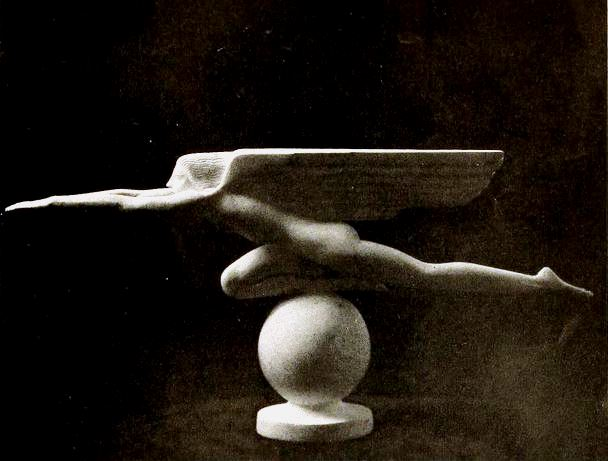 "Speed" by American sculptor Harriet Whitney Frishmuth, on page 61 of the December 1922 Shadowland.